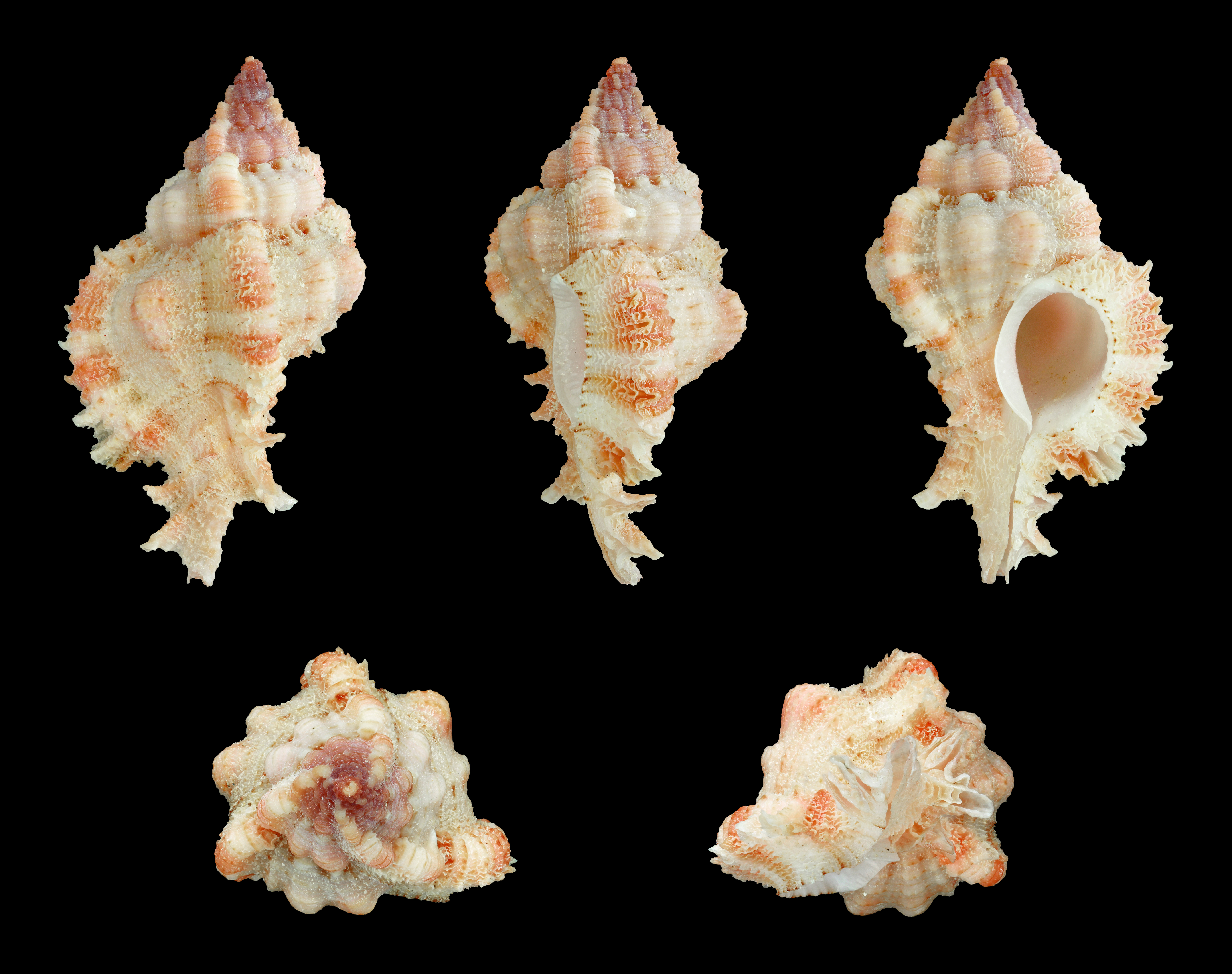 Charming Murex; Length 3,8 cm; Originating from Balicasag Island, Philippines; Shell of own collection, therefore not geocoded. Dorsal, lateral (right side), ventral, back, and front view.